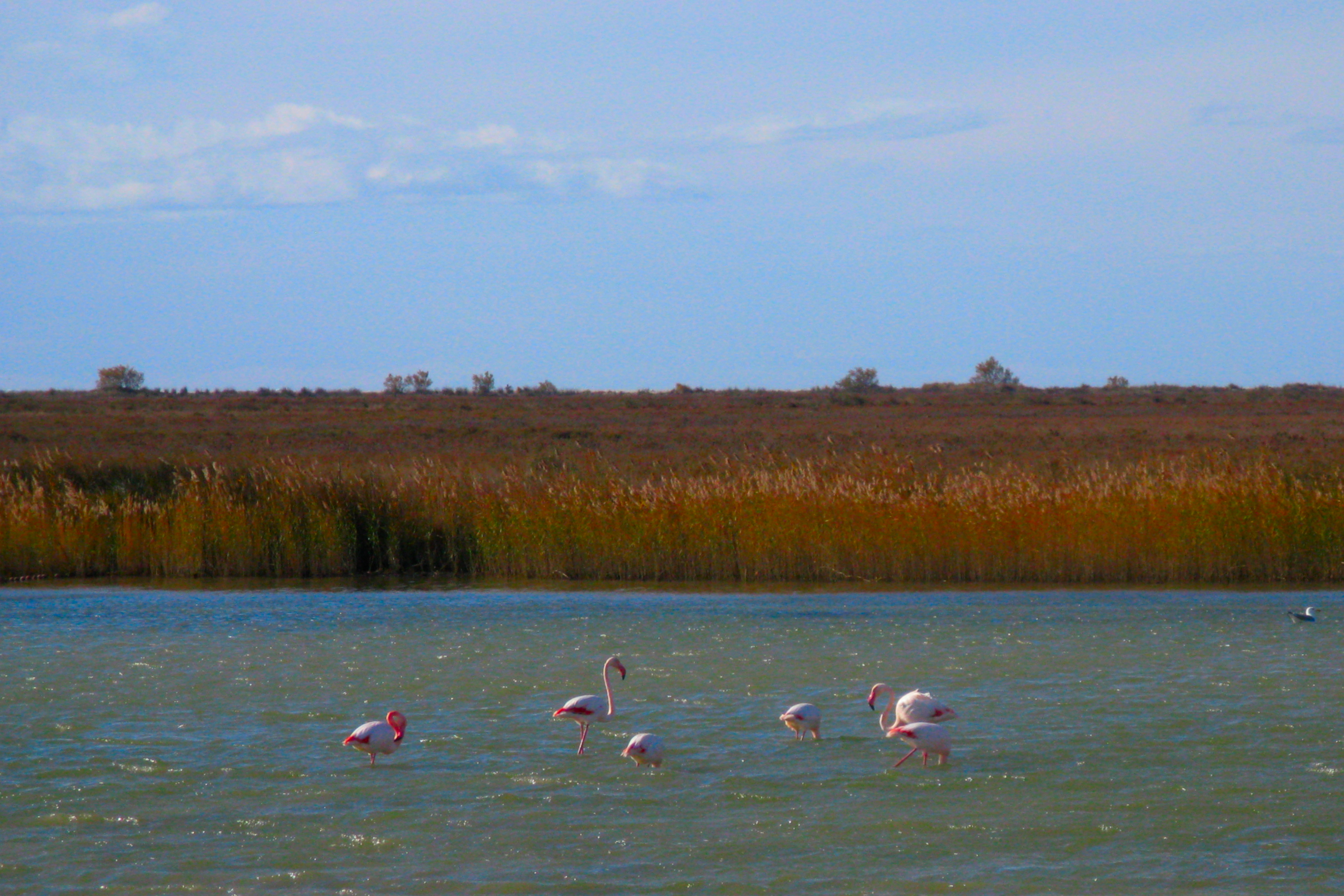 Pink Flamingos on the Étang de Fangassier in the Camargue, France, in November 2010. Étangs are small, shallow, marshy lakes or ponds, and at this time of year the Flamingos are getting ready for the mating season, so their plumage is at its brightest.